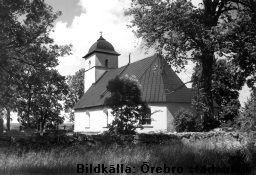 Gräve church outside Örebro, Sweden